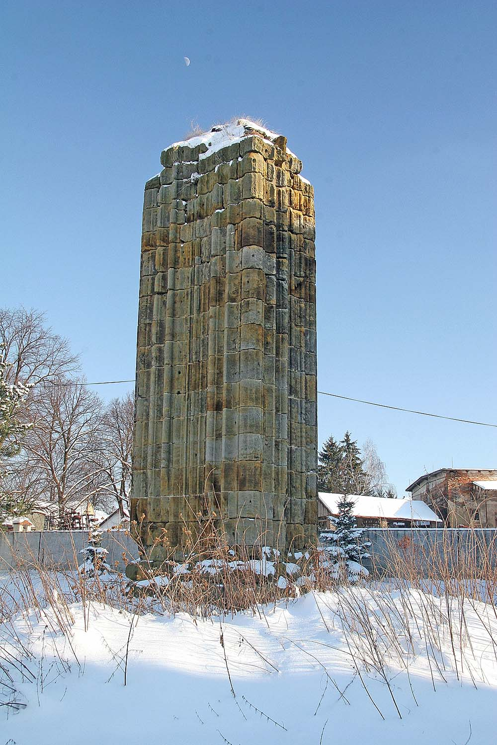 Klášterní Skalice, Kolín District, Central Bohemian Region, the Czech Republic. A ruin of the gothic church.